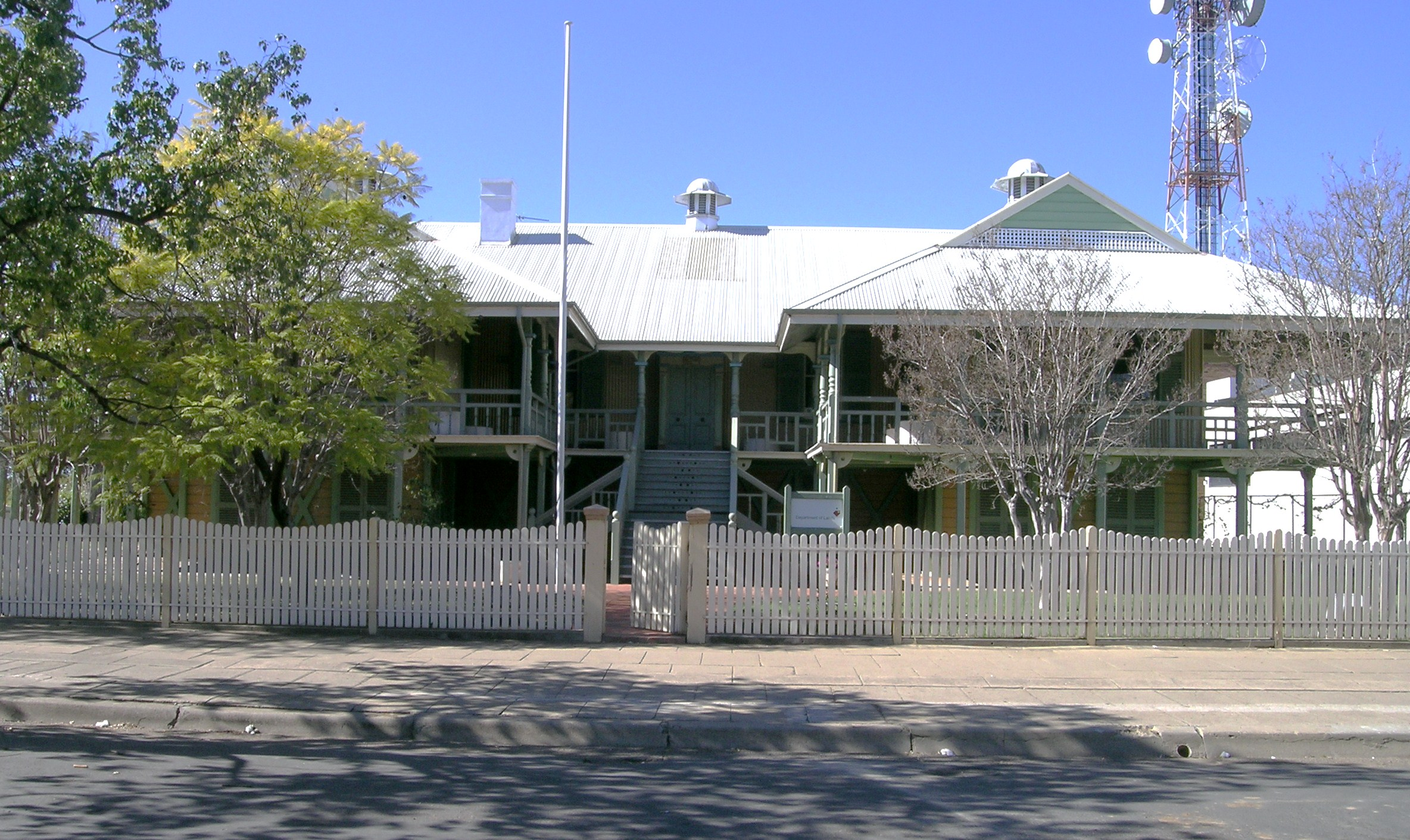 Register of the National Estate listed, Moree Lands Office, Frome St.